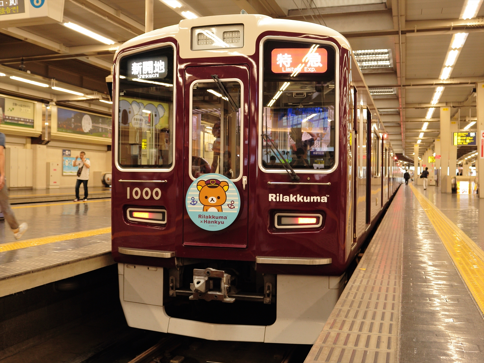 Hankyu 1000 series EMU set 1000 with a promotional Rilakkuma headboard at Umeda Station